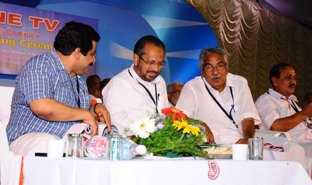 M.K.Muneer,T.Ariflai, Oommen Chandy, M.K.Raghavan